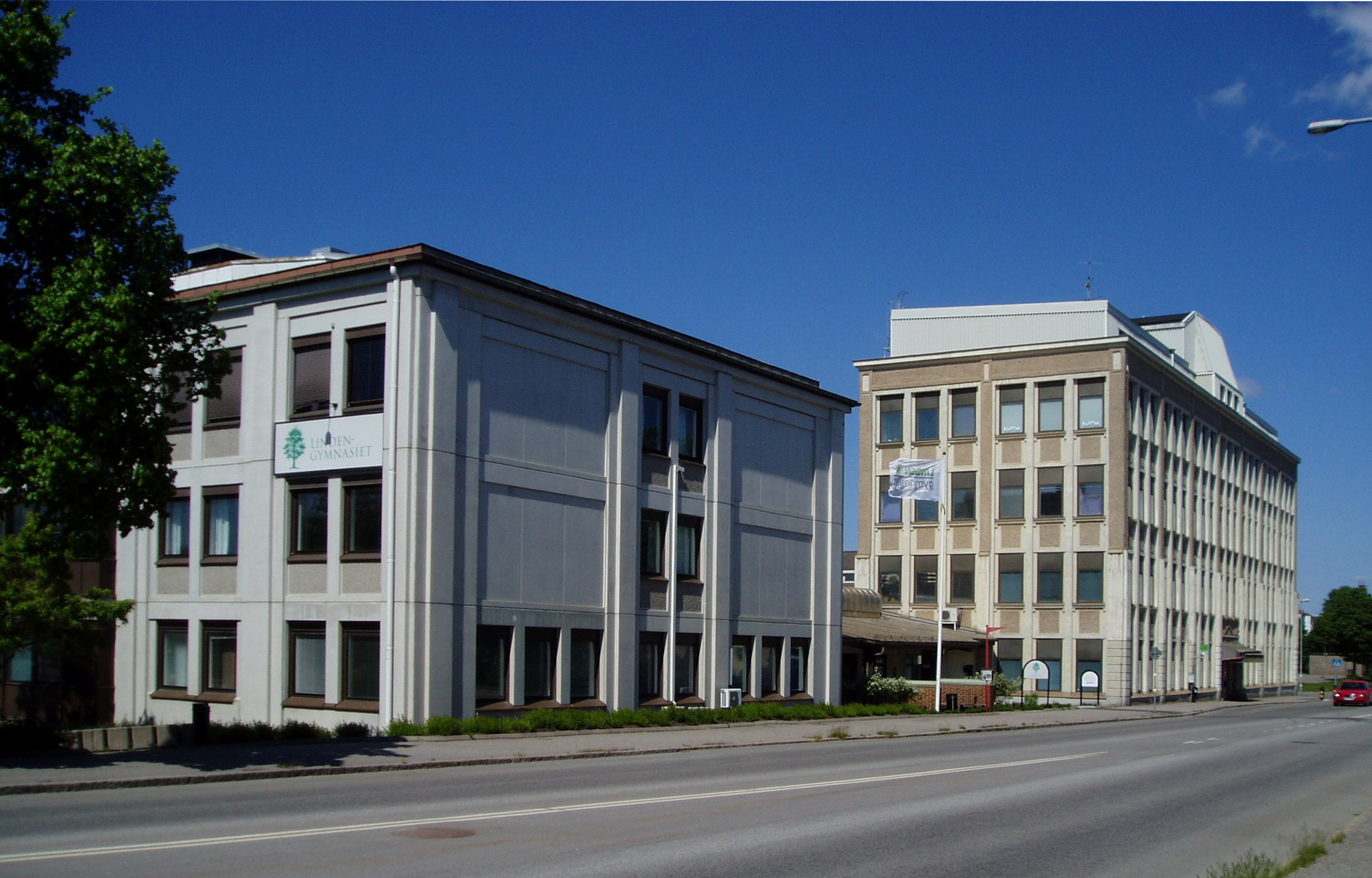 Lindengymnasiet, gymnasium in Katrineholm, Sweden